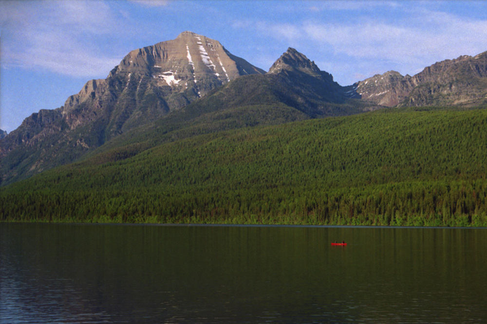 Bowman Lake — with Rainbow Peak of the Livingston Range on the left, in Glacier National Park, Montana. Two people are in a red canoe.